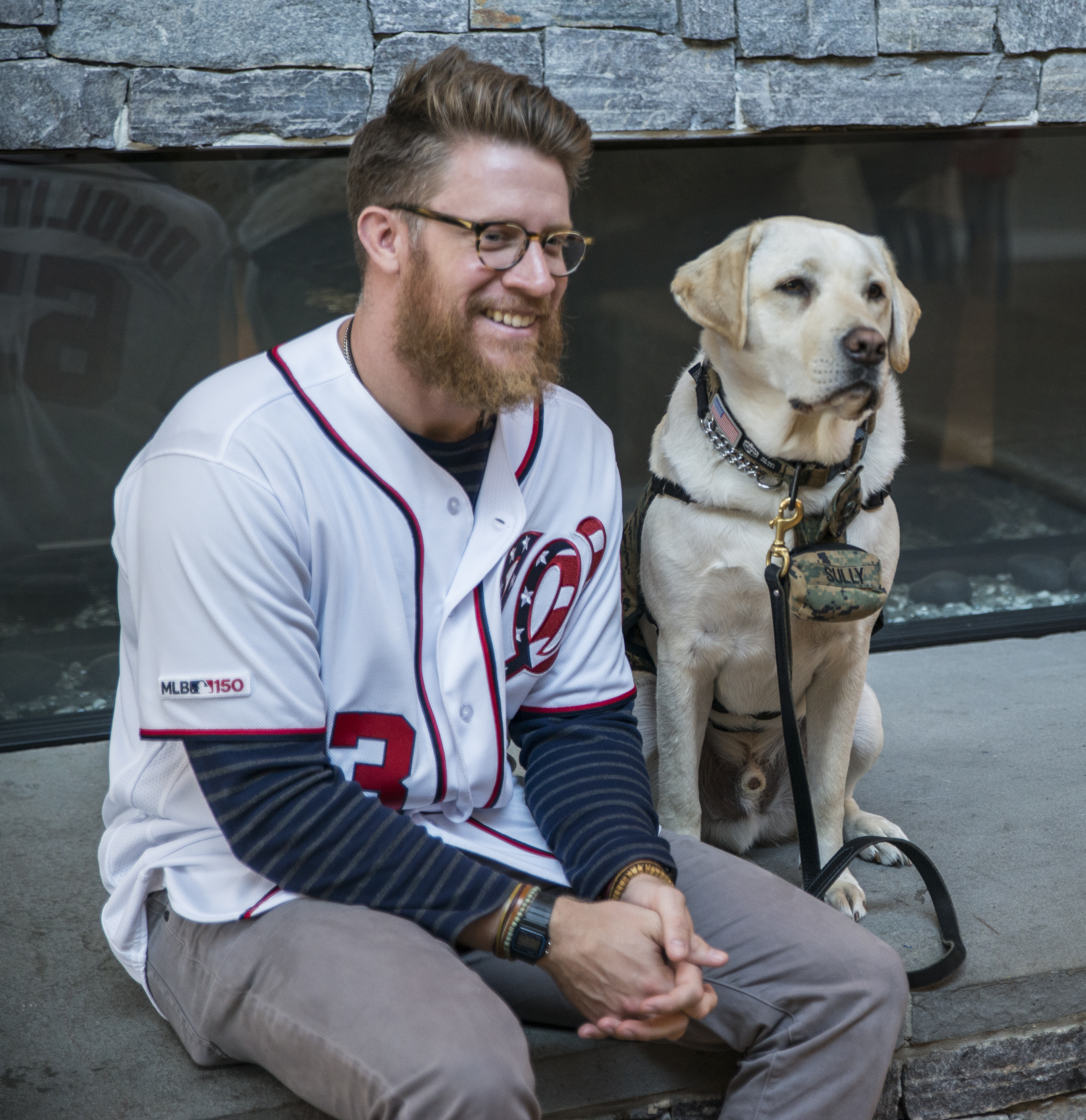 George H. W. Bush's former service dog Sully, now a Walter Reed Bethesda facility dog, took a photo with Washington Nationals baseball player Sean Doolittle at USO Warrior and Family Center Bethesda during a visit from the team during a community outreach event April 30, 2019, at Naval Support Activity Bethesda. (U.S. Navy photo by Mass Communication Specialist 2nd Class Julio Martinez Martinez)